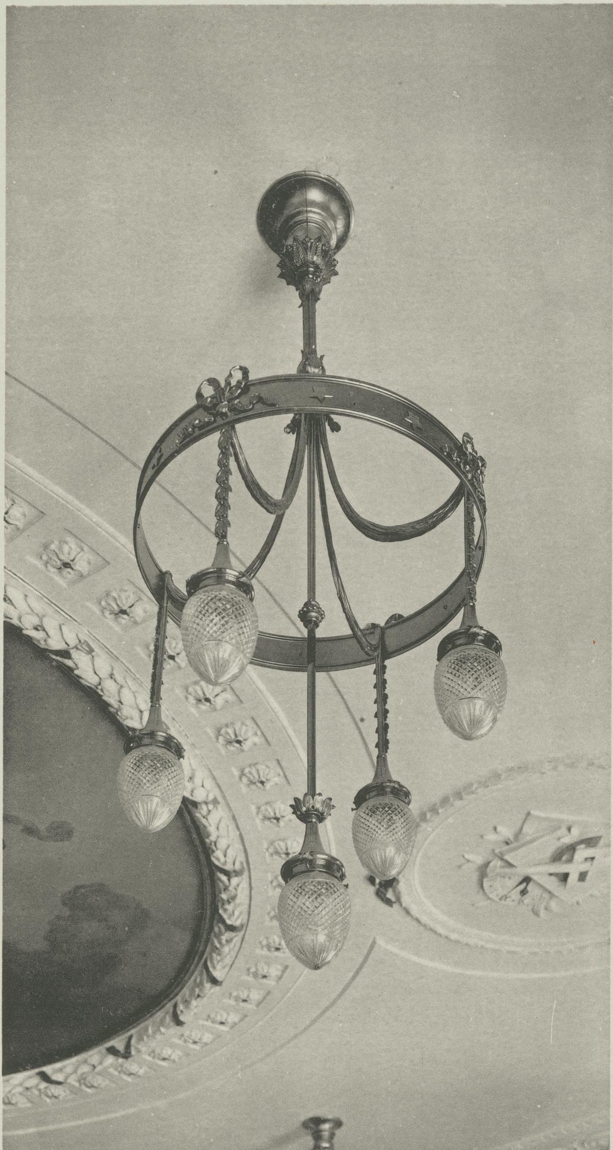 Heilbronn, Altes Rathaus, Gemeinderatssaal im 2. OG im Stil des Rokoko, fertiggestellt 1780, Beleuchtungskörper.jpg